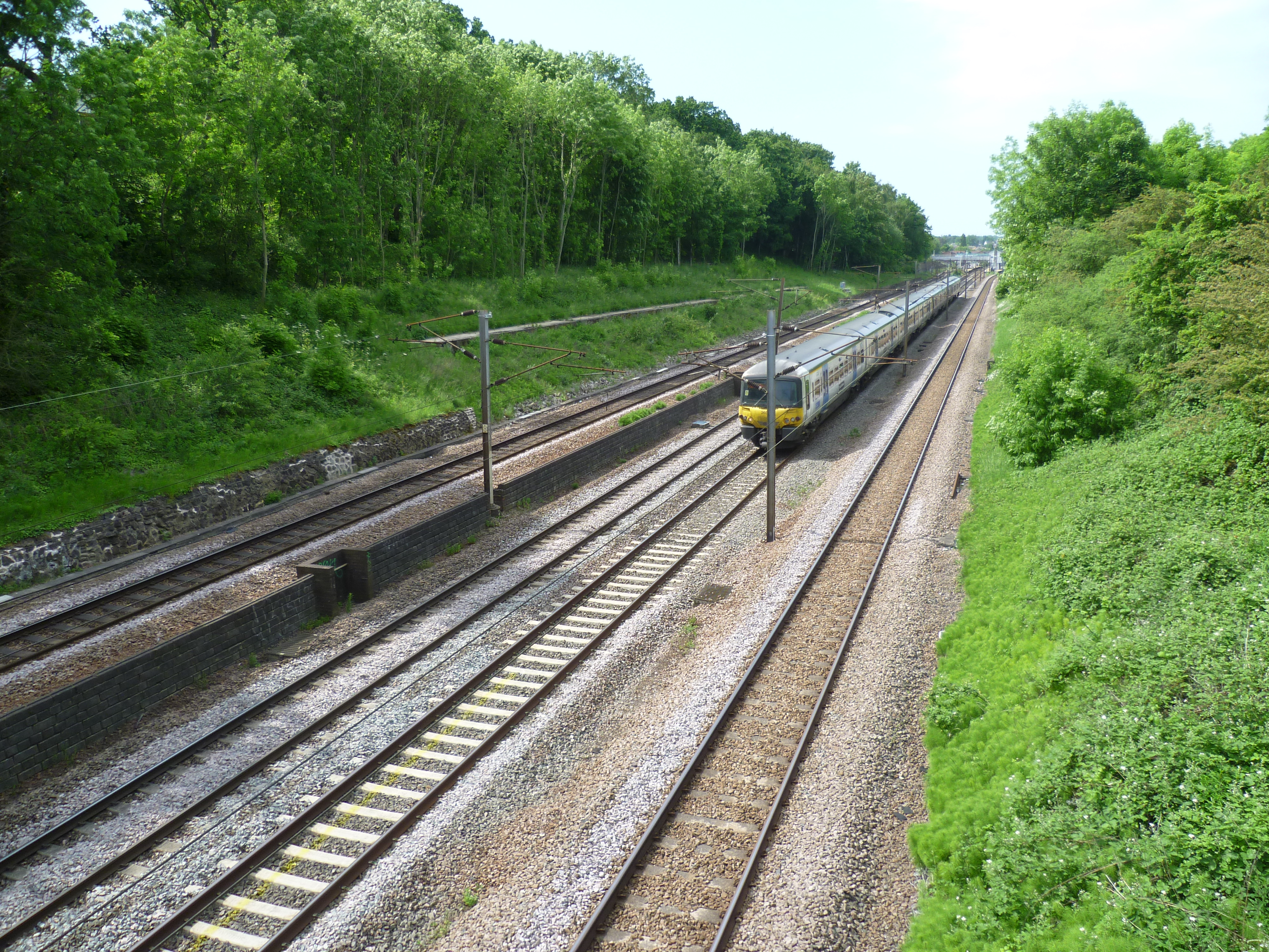 Looking north towards Oakleigh Park Station